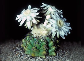 Flowering plant, S Cuiaba, Mato Grosso, Brasil